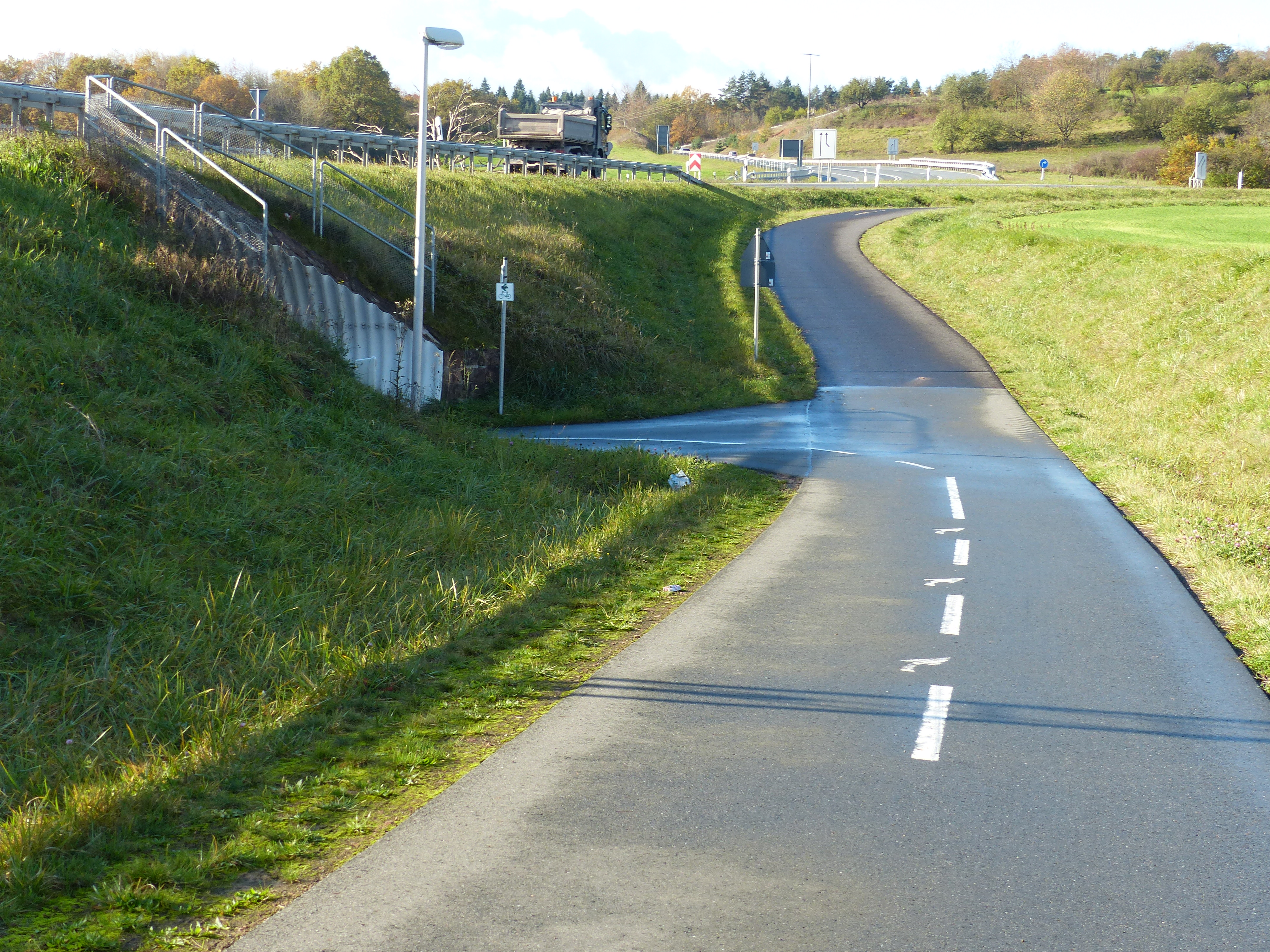 Cycleway with marked lanes for each direction, in germany still rare